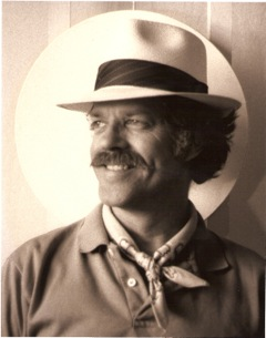 Gage Taylor, Age 42 in front of a counter weighted wall easel designed by himself and Bill Martin.Photo by Uriél Dana